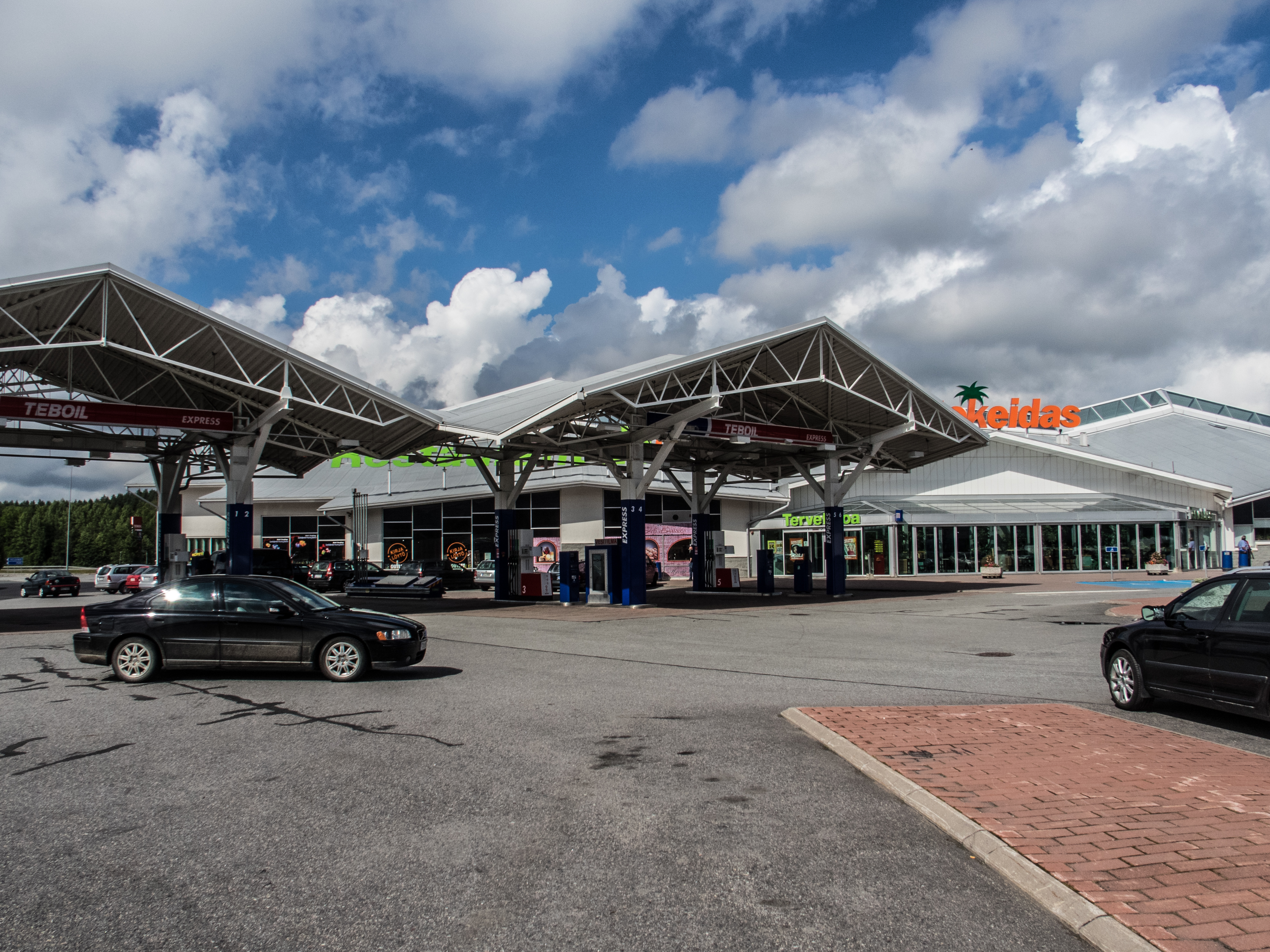 Popular gas station, restaurant, supermarket and motel Autokeidas in Forssa, Finland, intersection of highways 2 and 10.